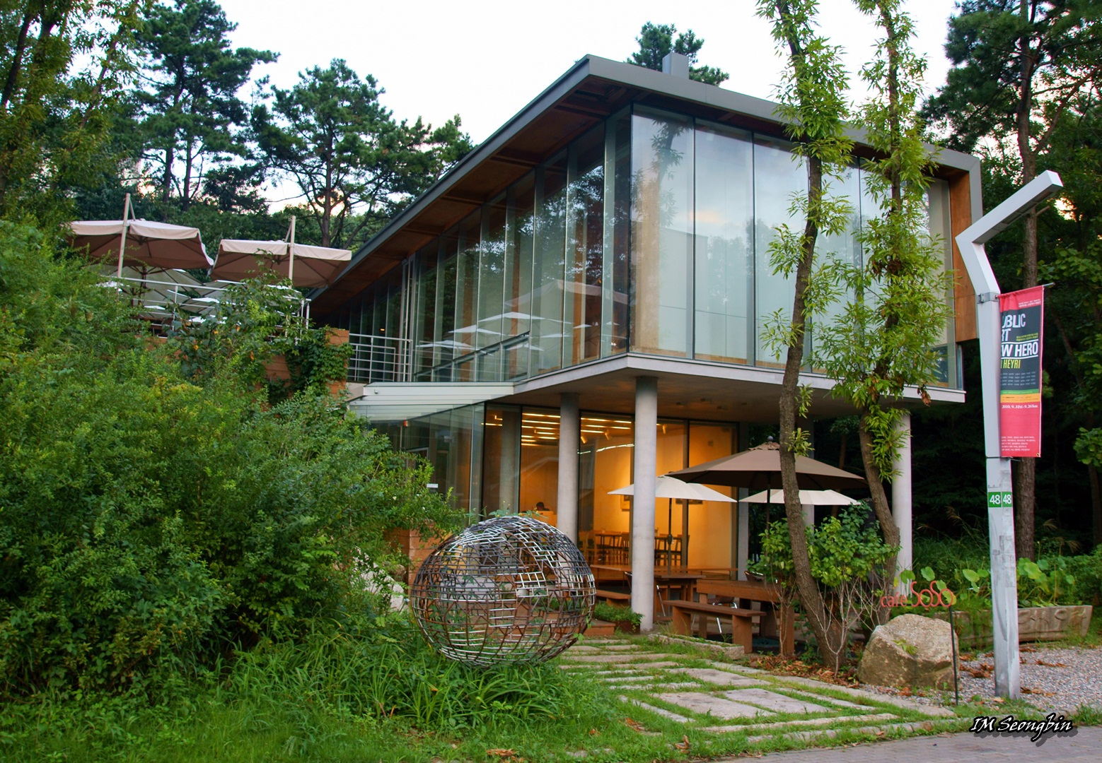 Gallery SoSo, Heyri, Paju (갤러리 소소, 헤이리)